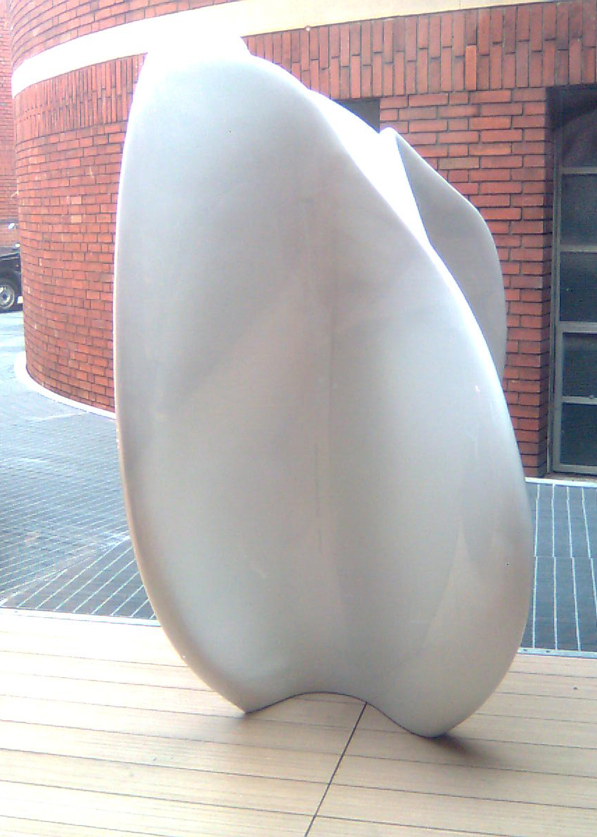 "Flow" vase designed by Zaha Hadid for the italian industry "Serralunga Srl" ( model "Flow L" whit h=200 cm)